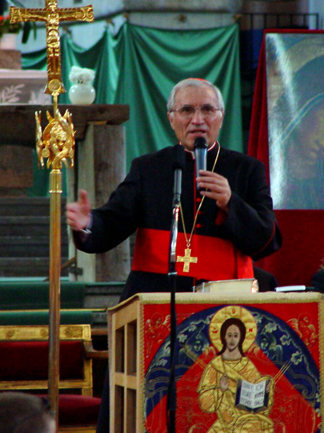 Antonio María Kardinal Rouco Varela, Archbishop of Madrid, Spain